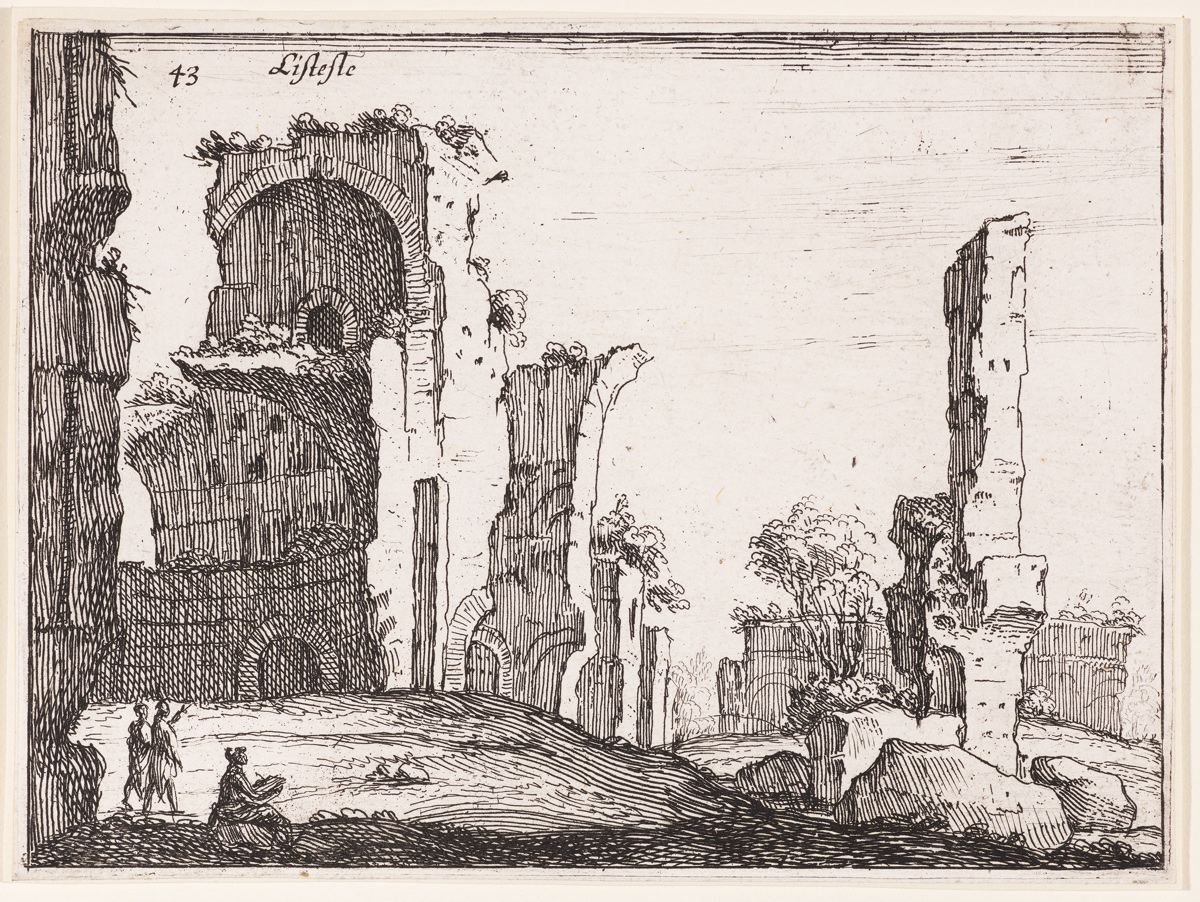 TheAntonine Baths, pl. 43 from the series Alcune vedute et prospettive di luoghi dishabitati di Roma (Some Views and Perspectives of the Uninhabited Places of Rome) Artist:Giovanni Battista Mercati Date:1629 Location:Not on display Century:17th Century AD Media:Etching Dimensions:9.5 x 12.9 cm (image) Department:Achenbach Foundation Object Type:Print Country:Italy Provenance:D. Tunick, 1977; LL verso: Marcus Sopher (cat. 39D); From a set of fifty-two plates (B. 12-63), of which the first two, title page (B. 12) and dedication page ( B. 13), and no. 17( Campo Vaccino, B. 28) are apparently lacking (as of 10/23/96). Sopher 17th c. cat. no. 39D; Accession Number:1986.1.367 Acquisition Date:1986-12-31 Credit Line:Mr. and Mrs. Marcus Sopher Collection The ruins of the Baths of Caracalla